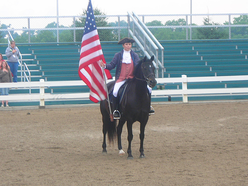 Morgan horse and rider at the Parade of Breeds, Kentucky Horse Park.